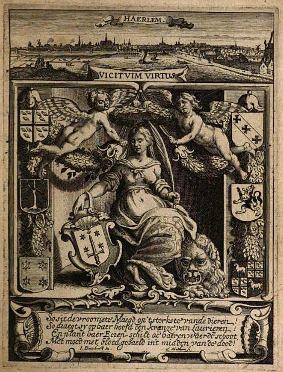 Haarlem maiden sitting on a lion, holding a palm branch and wearing a laurel wreath; Title page of "Description of Haarlem" (Beschrijvinge ende lof der stad Haerlem in Holland), 1628